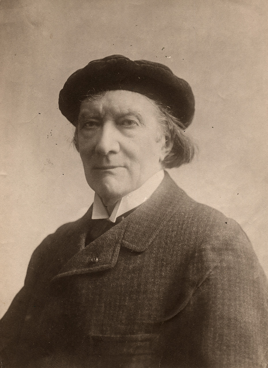 Portrait of Victorien Sardou, composer (1831-1908). Photo by Bert, before 1908.